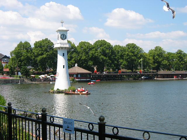 Scott Memorial, Roath Park. A plaque on the memorial states that it is in memory of Captain Scott and his companions, who sailed in the S.S. Tera Nova from the Port of Cardiff on June 15th 1910 to locate the South Pole, and who laid down their lives in the Antarctic. "Britons all and very gallant gentlemen."